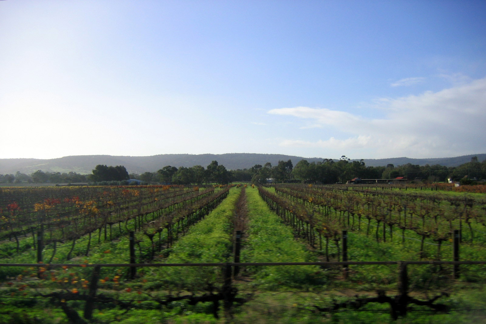 Vineyards on the Great Northern Highway in the Swan Valley wine region, Western Australia.